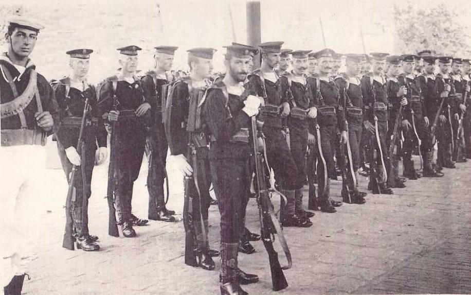 Austro-Hungarian marines at Peking before WWI to protect the legation quarter. Cropped from a contemporary postcard.